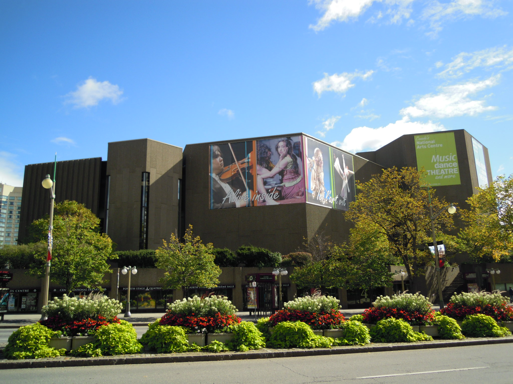 National Arts Centre from Elgin Street, Ottawa, Ontario, Canada.